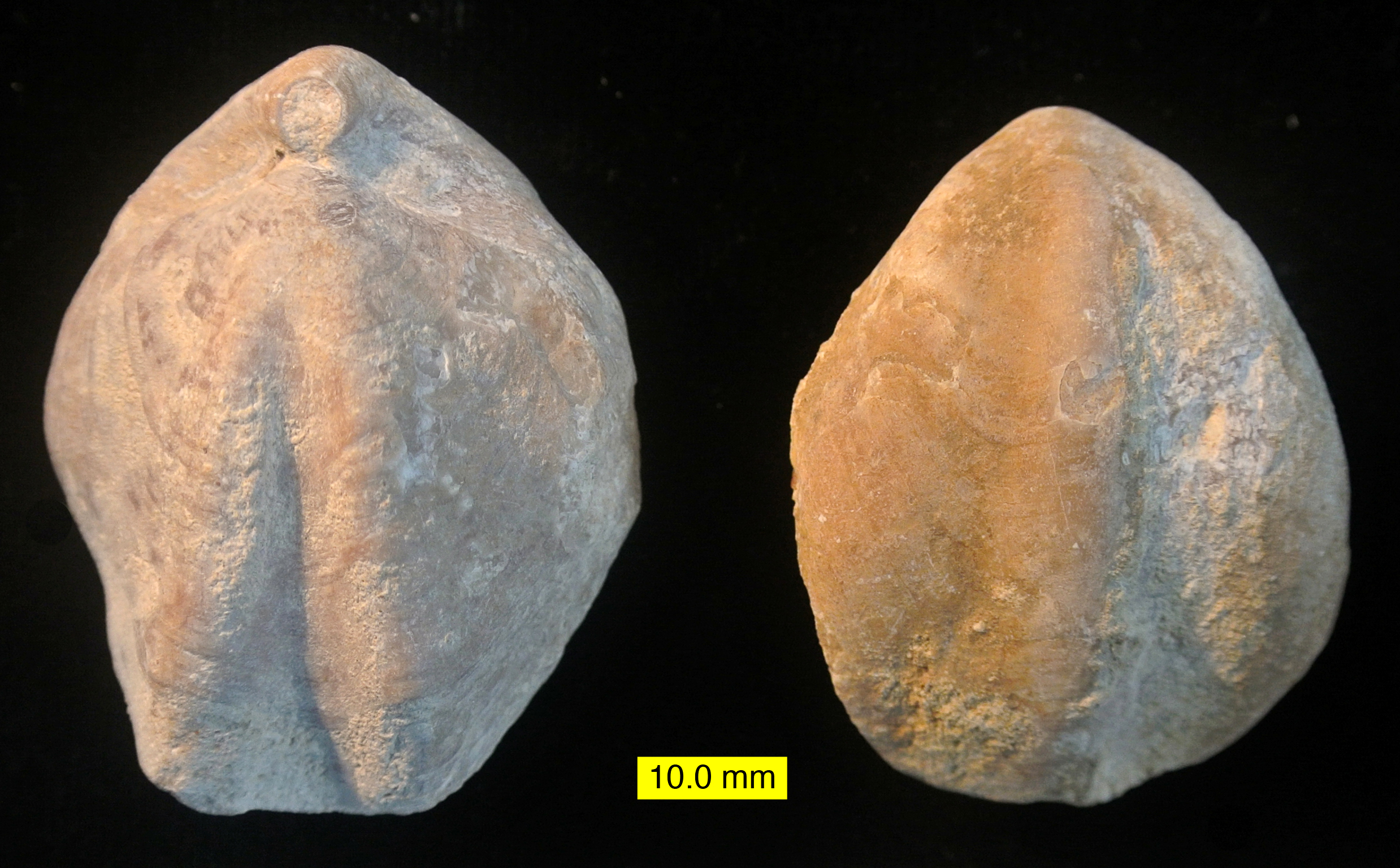 Terebratula maugerii Boni, 1933. A terebratulid brachiopod from the Upper Miocene of Cordoba, Spain.